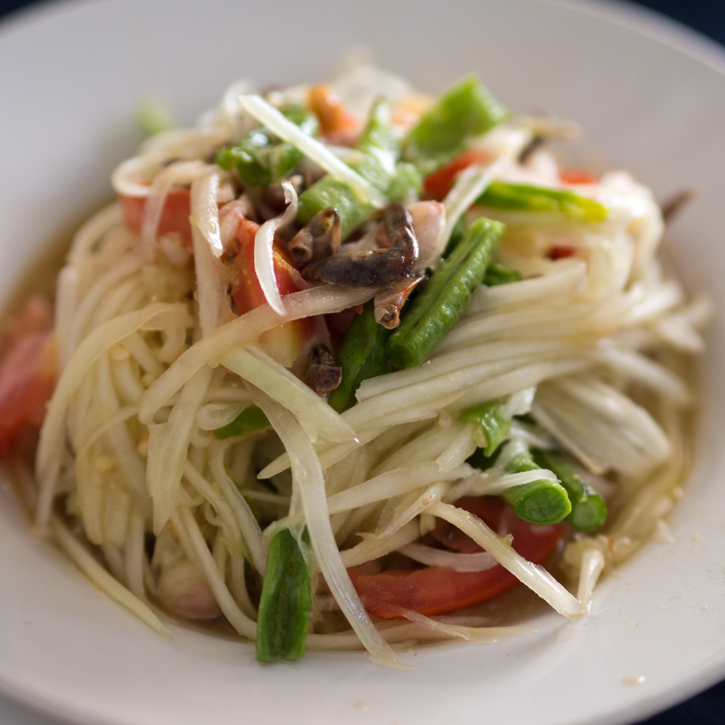 Som tam pu (Thai script: ส้มตำปู): green papaya salad with brined rice paddy crabs.